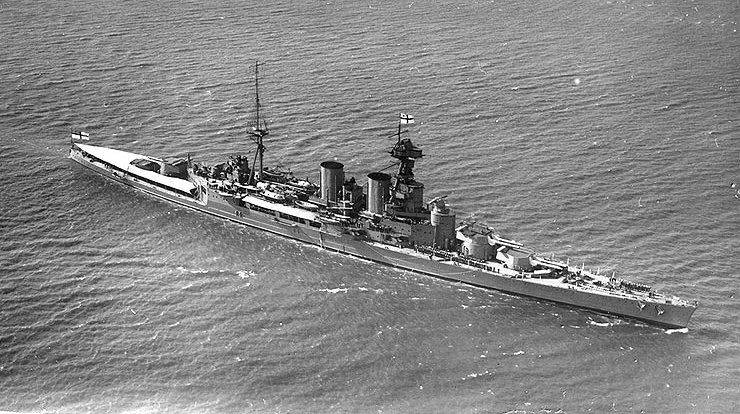 British battlecruiser HMS Hood Caption read: In American waters, circa June-July 1924. Note Vice-Admiral's flag flying from her foremast.